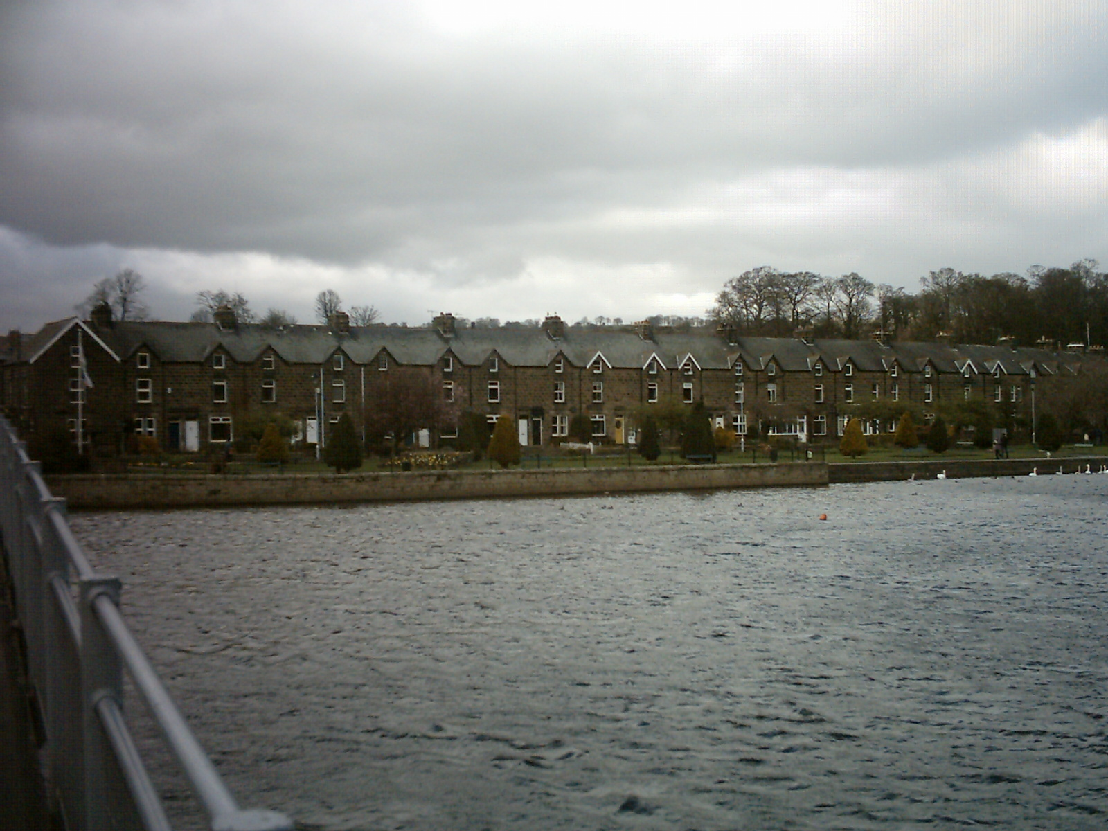 The River Wharfe from the South Bank at Otley, West Yorkshire